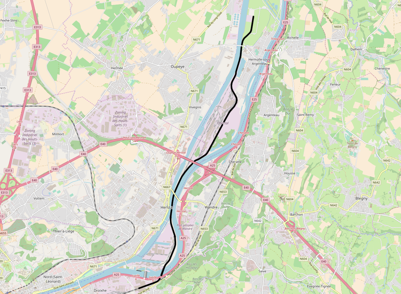 Belgian Railway Line 214, Jupille - Chertal